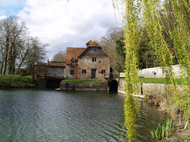 Mill at Mapledurham Seen in the film Eagle Has Landed, and also used for the front cover of the first Black Sabbath album cover